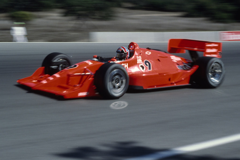 Arie Luyendyk in the Granatelli/Lola/Chevrolet - CART Toyota Monterey Grand Prix at Laguna Seca - Monterey, CA - October 1991. Scanned from Kodachrome 64 slide.Laguna Seca Speeder